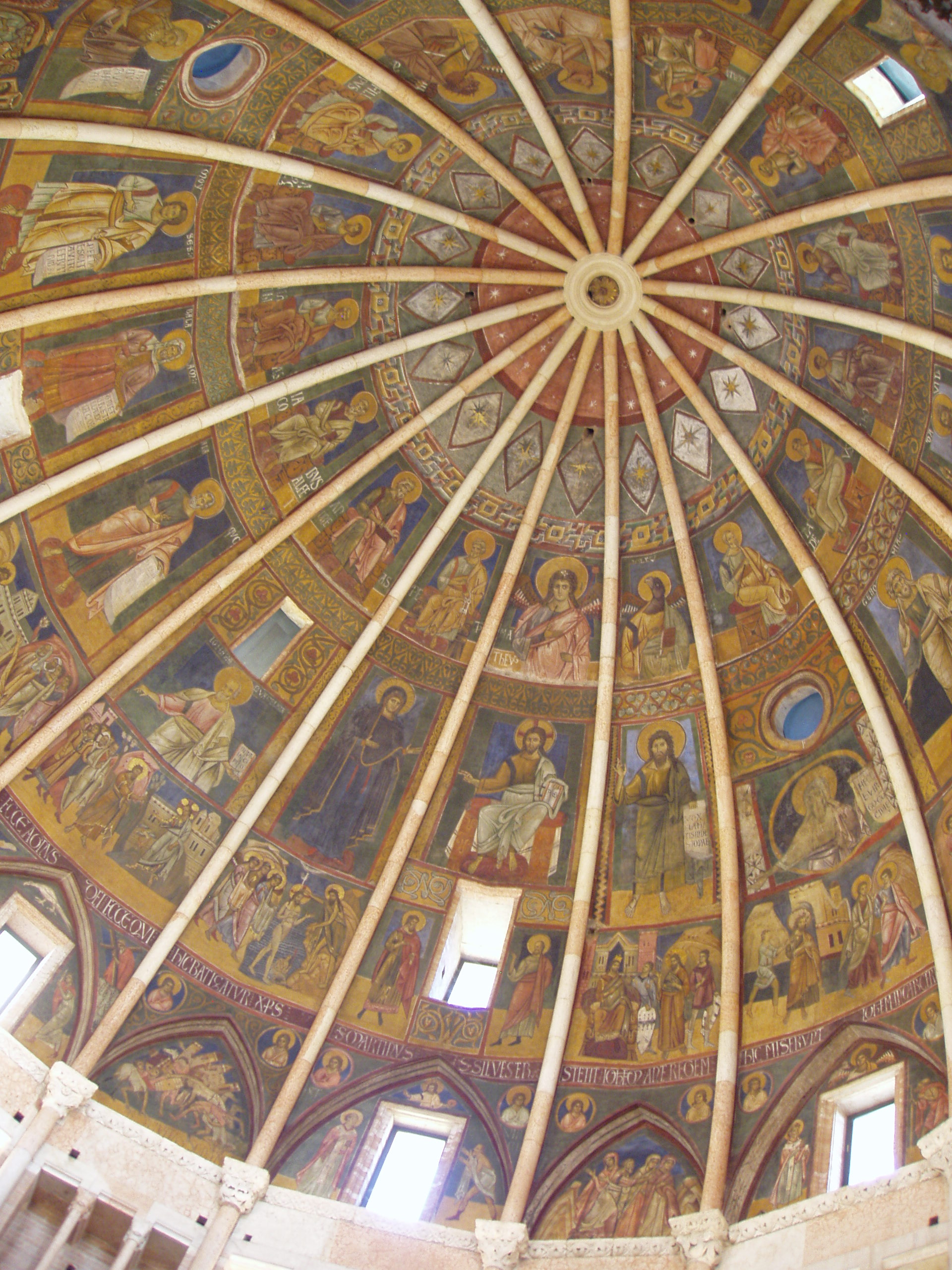 Parma, Italy - Baptistry dome interior.